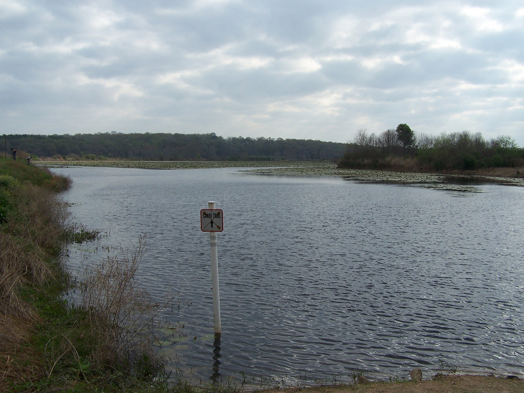 A view of Lake Piney Z (Lake Lafayette) from the Lafayette Heritage Trail Park in Tallahassee, Florida.